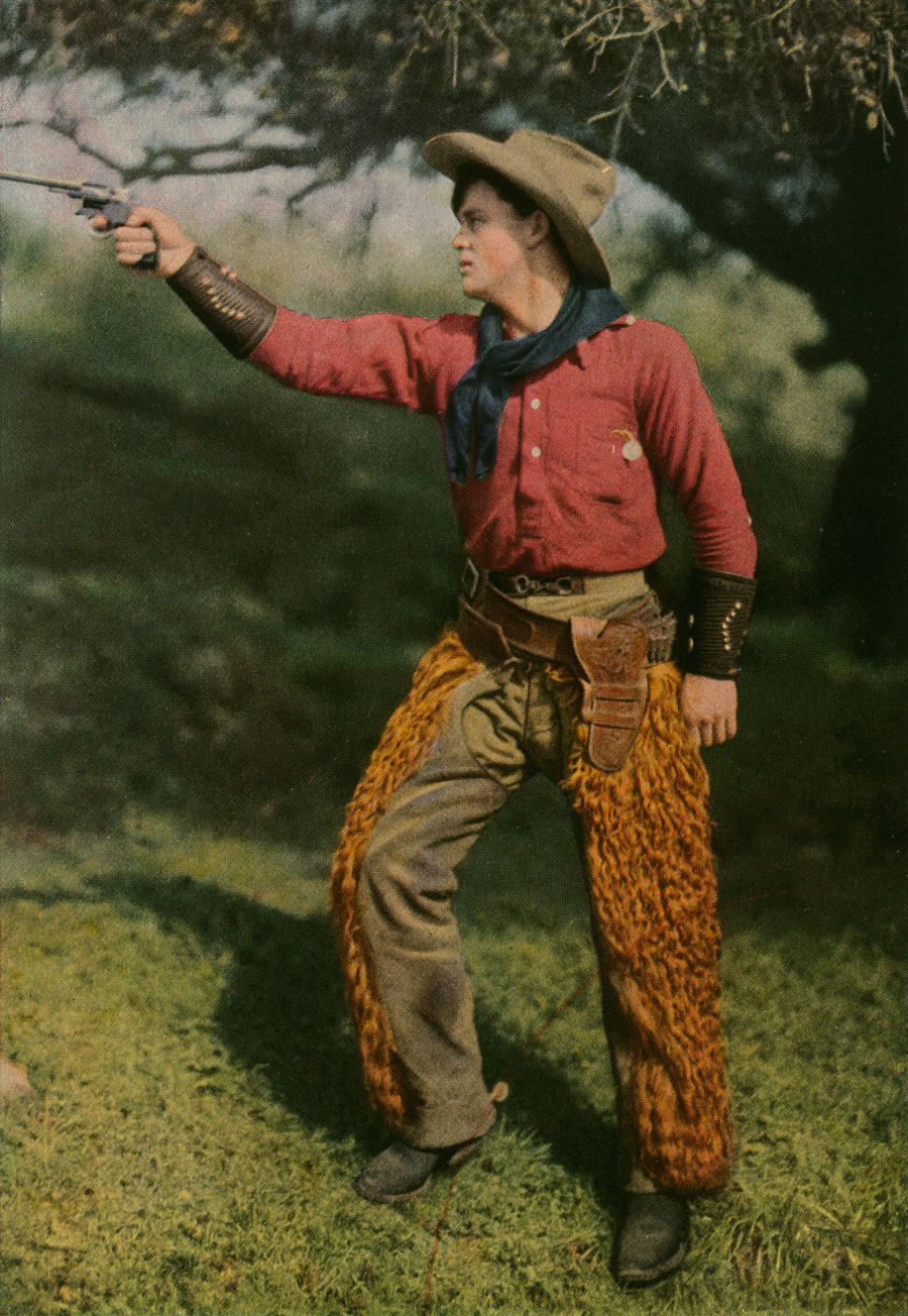 "As the settler encroaches further and further upon the cattle country, the cowboy and the romance of his calling are rapidly approaching the point where they will exist only on the motion picture screen and in the Wild West show," from an April 1916 feature on the United States. Photograph by Franklin Price Knott, National Geographic